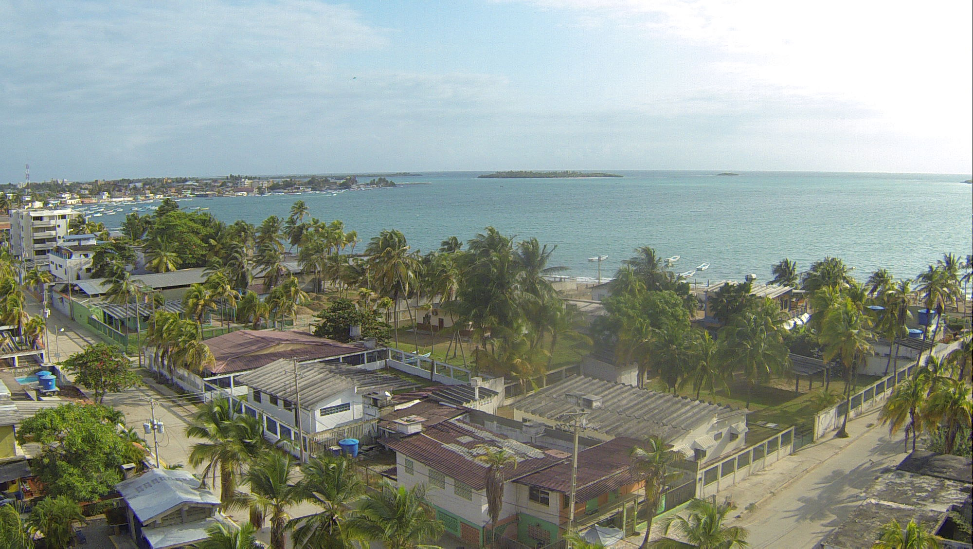 CHICHIRIVICHE